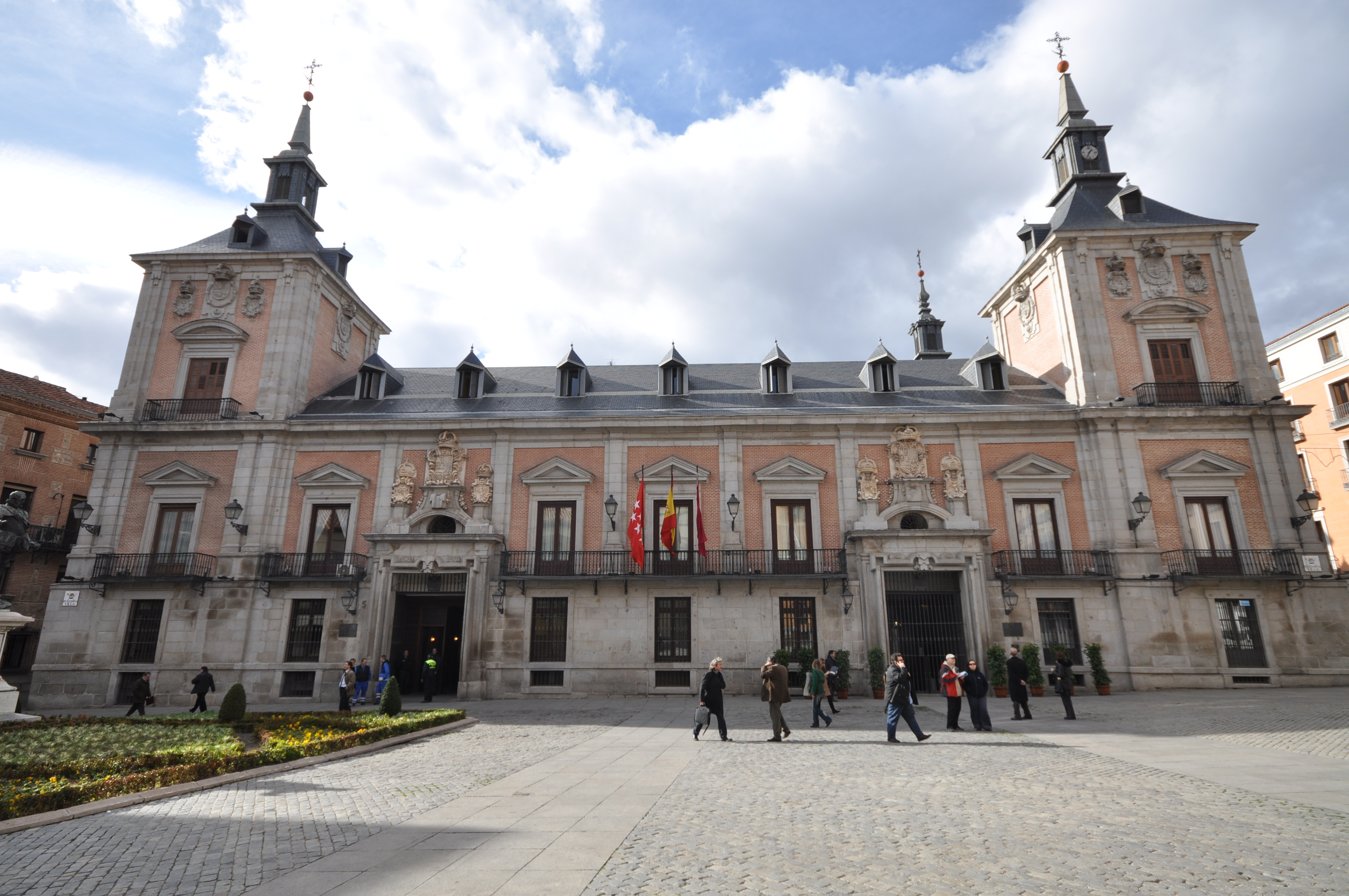 East facade of Casa de la Villa in Madrid (Spain).